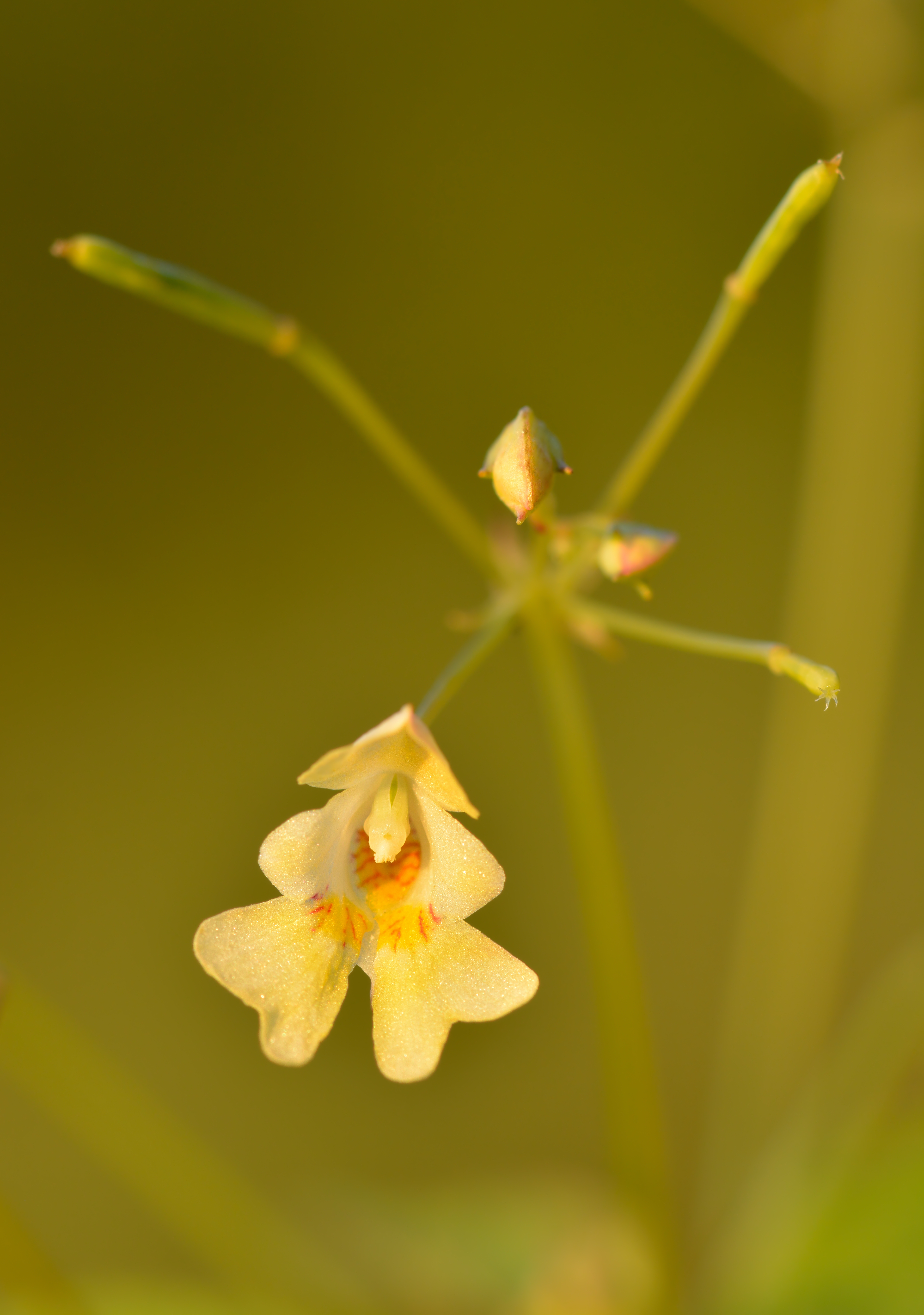 Small yellow balsam.